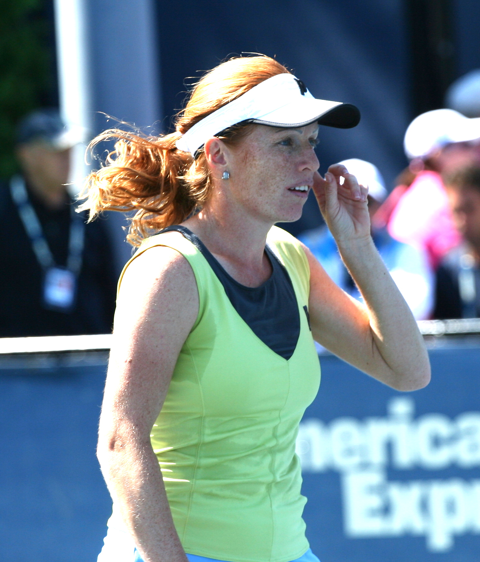 Vladimíra Uhlířová at the U.S. Open on Wednesday, Sept. 2, 2009